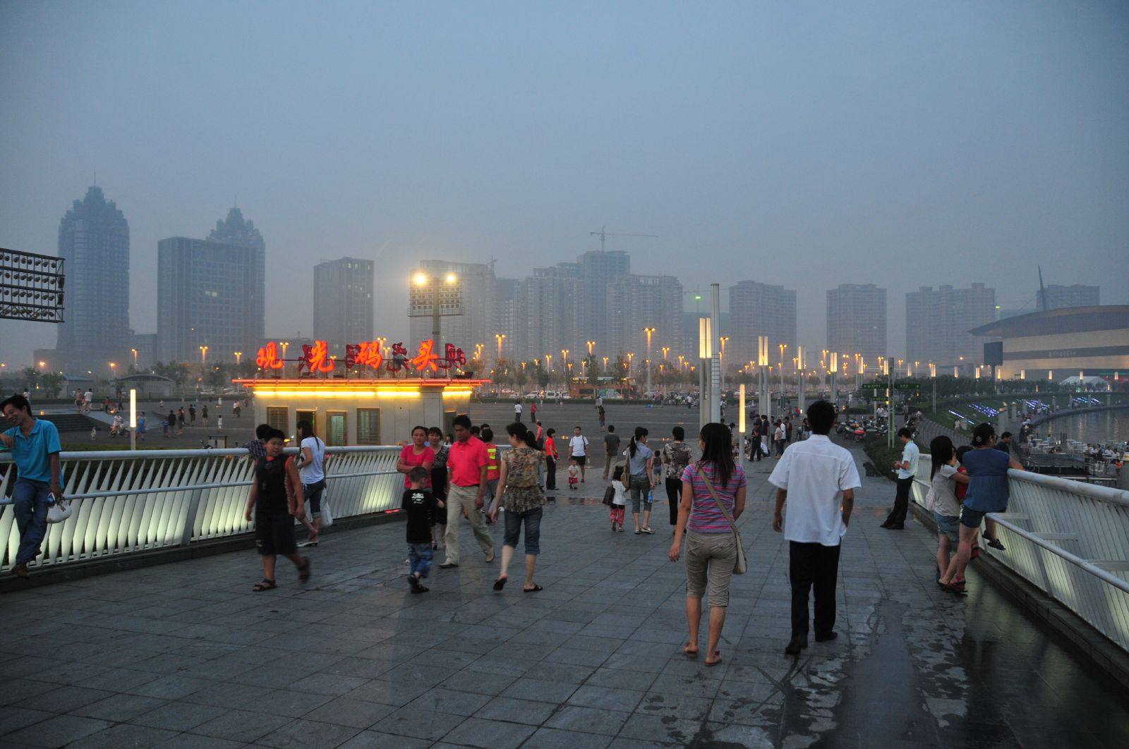 Zhengzhou East District